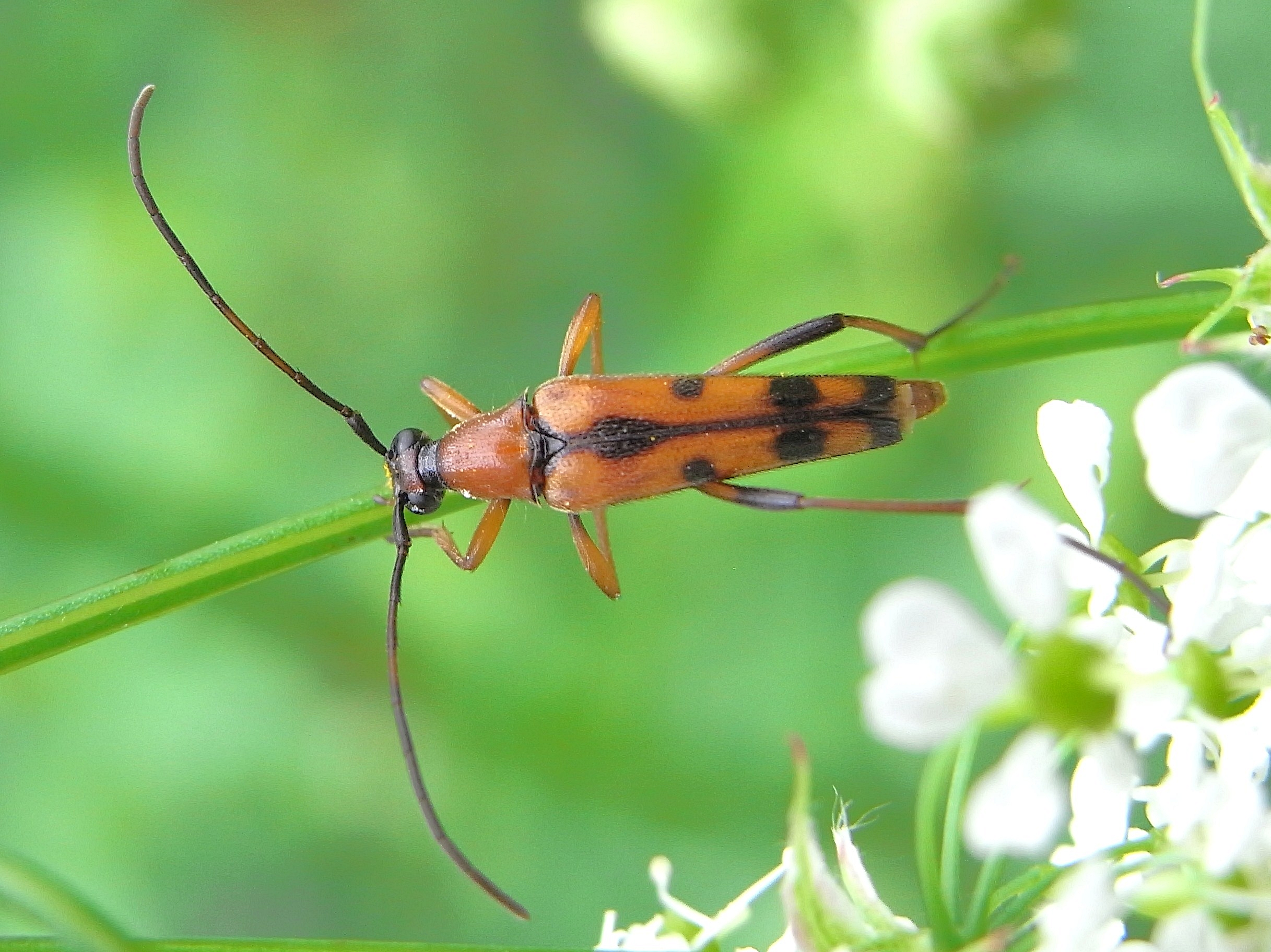 Stenurella septempunctata from Hungary Ricoh R8